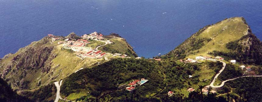 View of St Johns Village as seen from Mount Scenery. Saba, Netherlands Antilles - July 2004 Saba, Netherlands Antilles